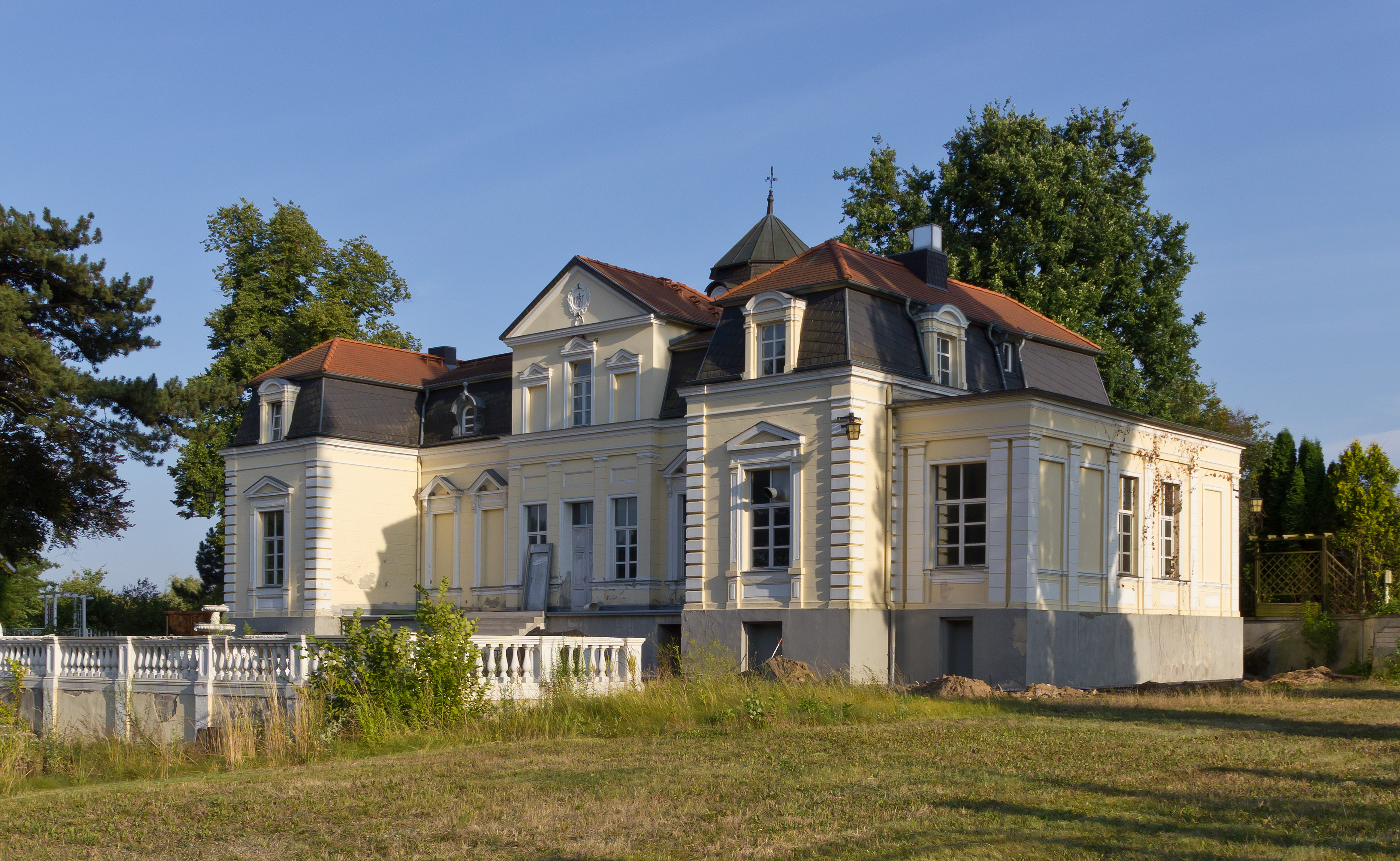 Manor in Neuhof near Wünsdorf, Brandenburg, Germany